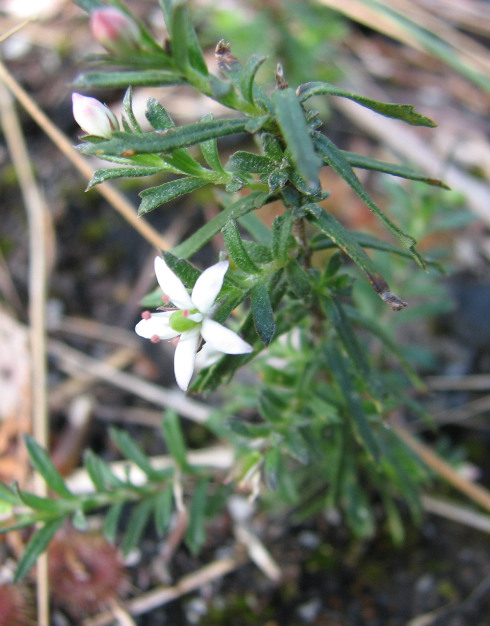 Rhytidosporum procumbens, Bunyip State Park, Victoria, Australia